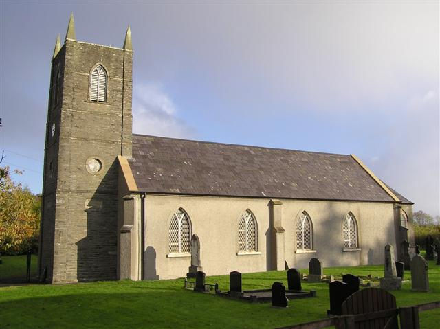 Newtowncunningham Church of Ireland Located between the village and the through-pass; it is in the diocese of Raphoe